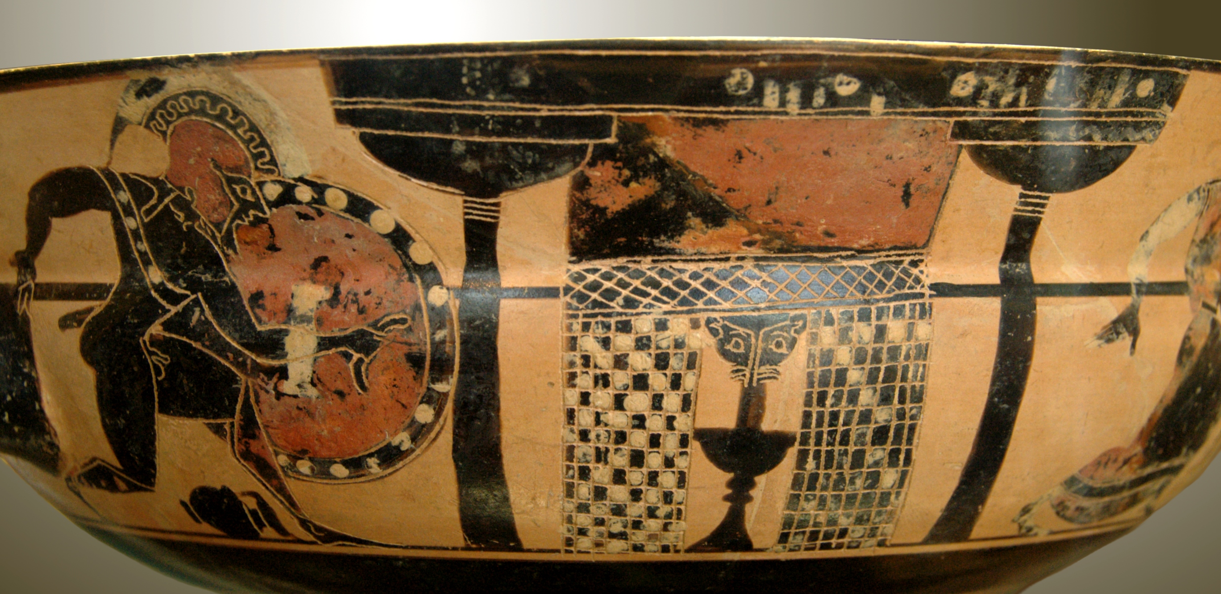 Achilles watching out for Troilus (right on this side). Side A from an Attic black-figure kylix, ca. 570–565 BC.